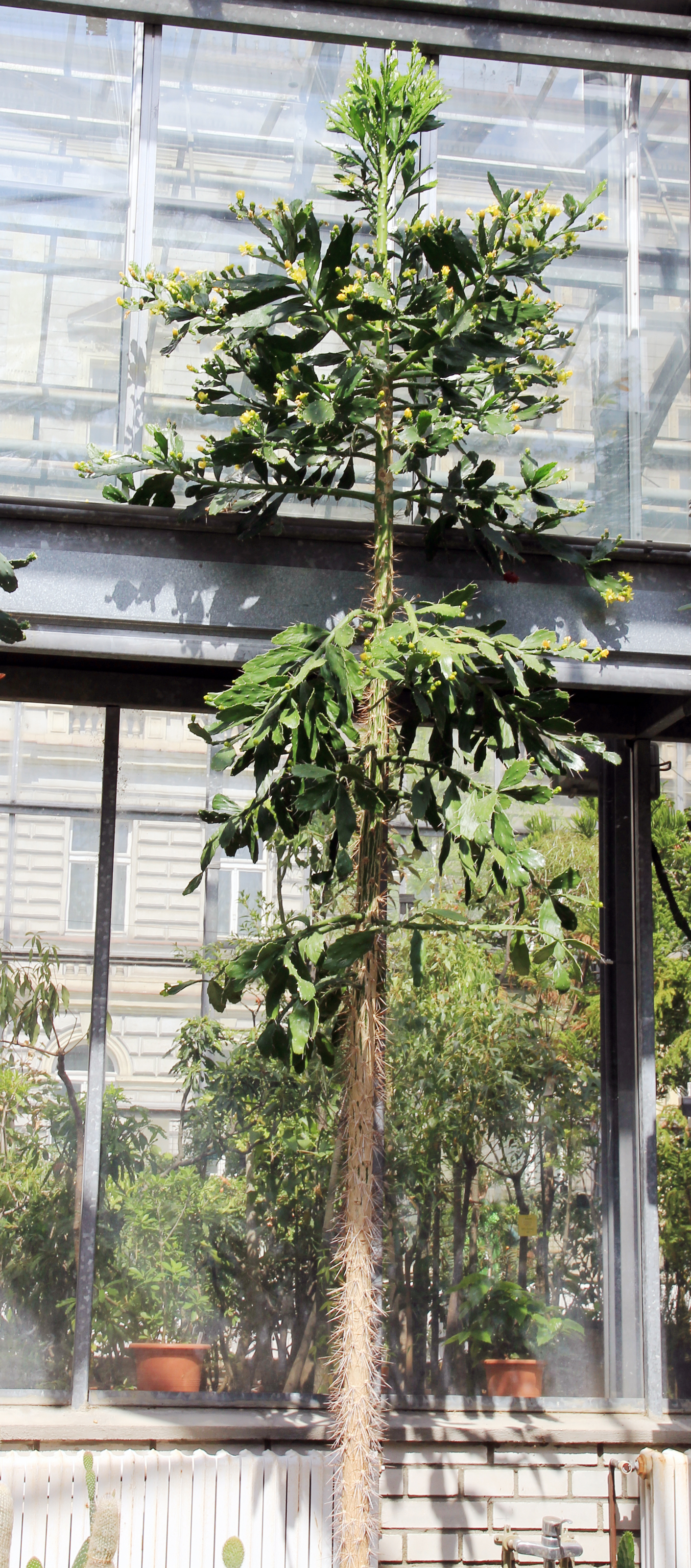 Cactus Brasiliopuntia brasiliensis (former:Opuntia brasiliensis) from greenhouse of the Botanical Gardens of Charles University, Prague, Czech Republic